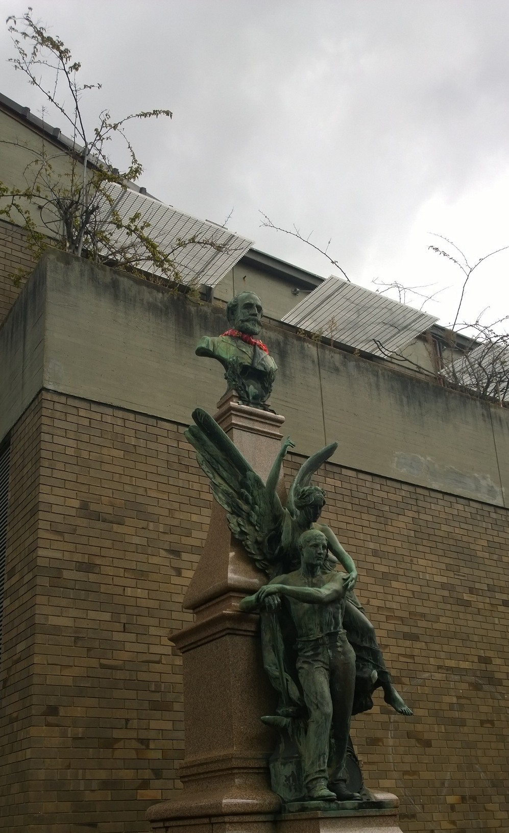 Peter Nicol Russell Building, Maze Crescent, The University of Sydney, NSW, 2006